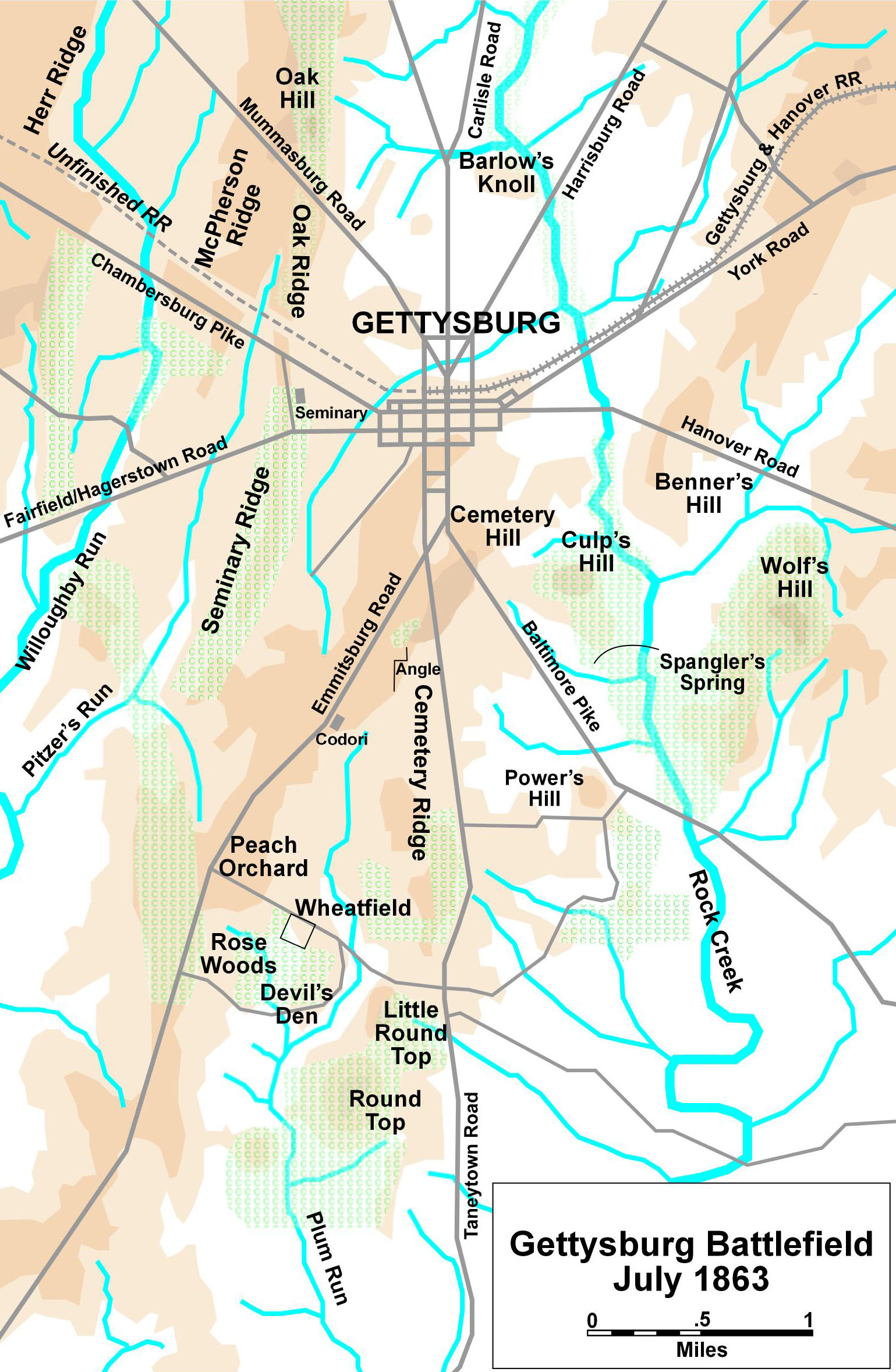 Drawn by Hal Jespersen in Macromedia Freehand. Source file available in JPEG version replacing PNG version due to printing problems from some browsers.